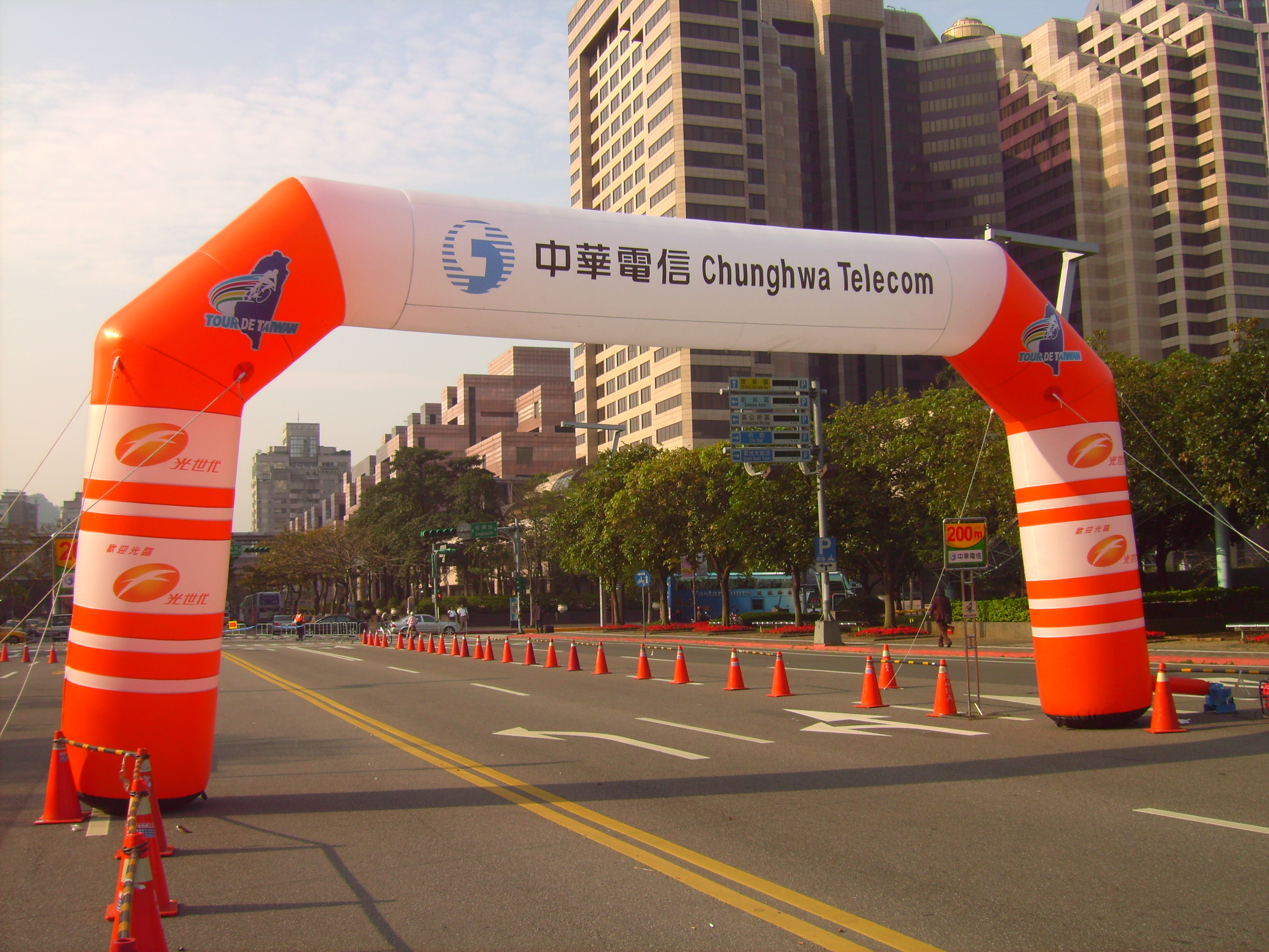 Tour de Taiwan 2007: The check point often sets in the long distance competition before 1km area.